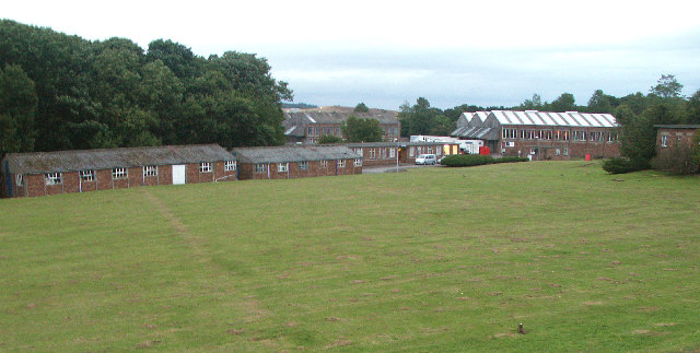 Royal Elizabeth Yard. Looking north from Milton to Craigbrae Road. Old HM Royal Naval Stores Station. Now Royal Elizabeth Industrial Estate and Business Park.